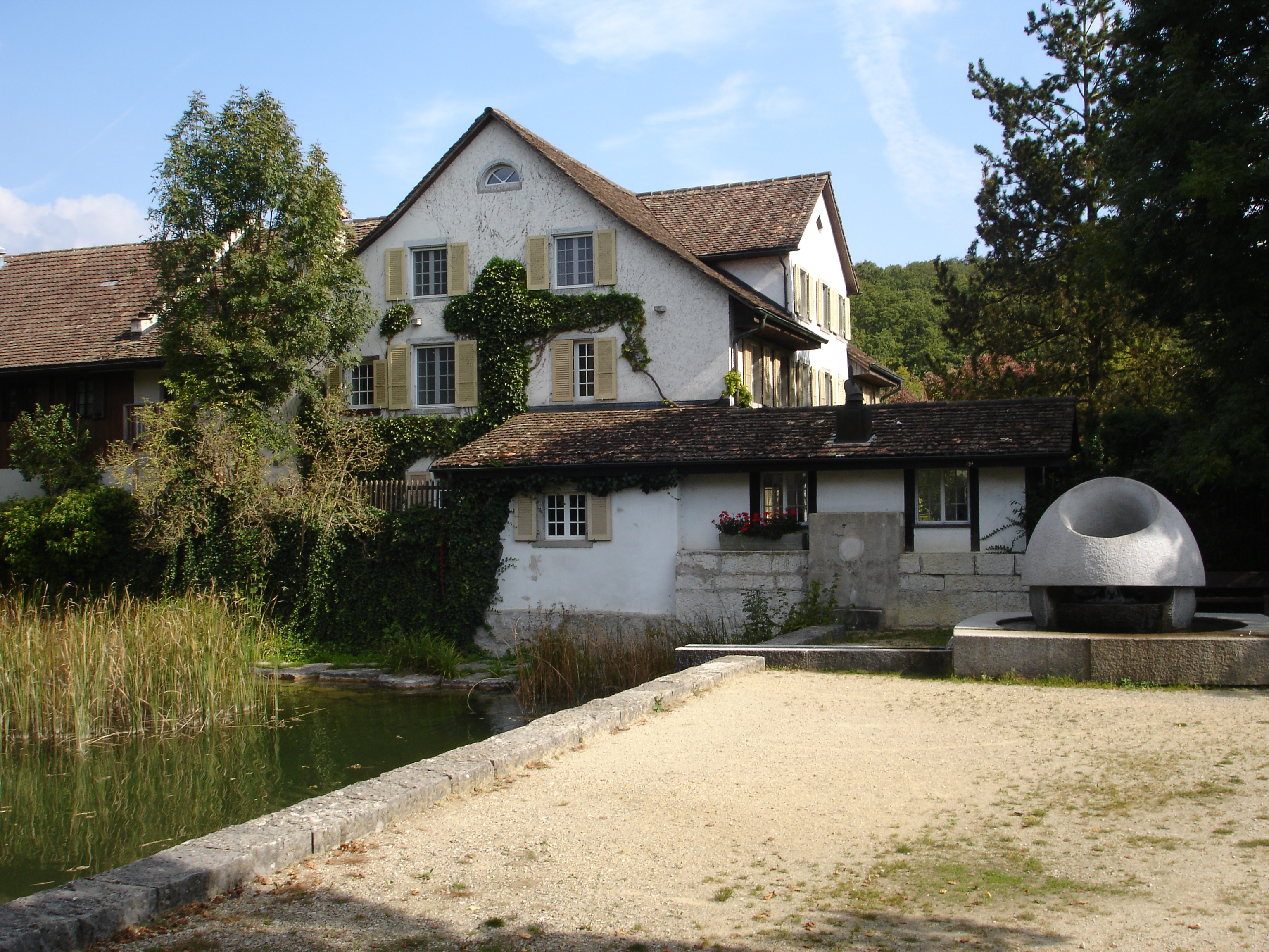 Pond in Hochfelden ZH, Switzerland